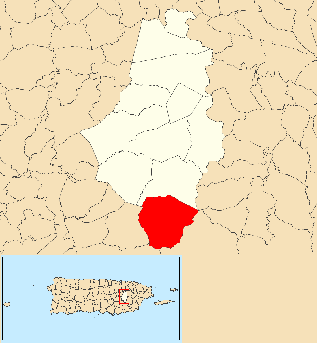 San Salvador, Caguas, Puerto Rico locator map